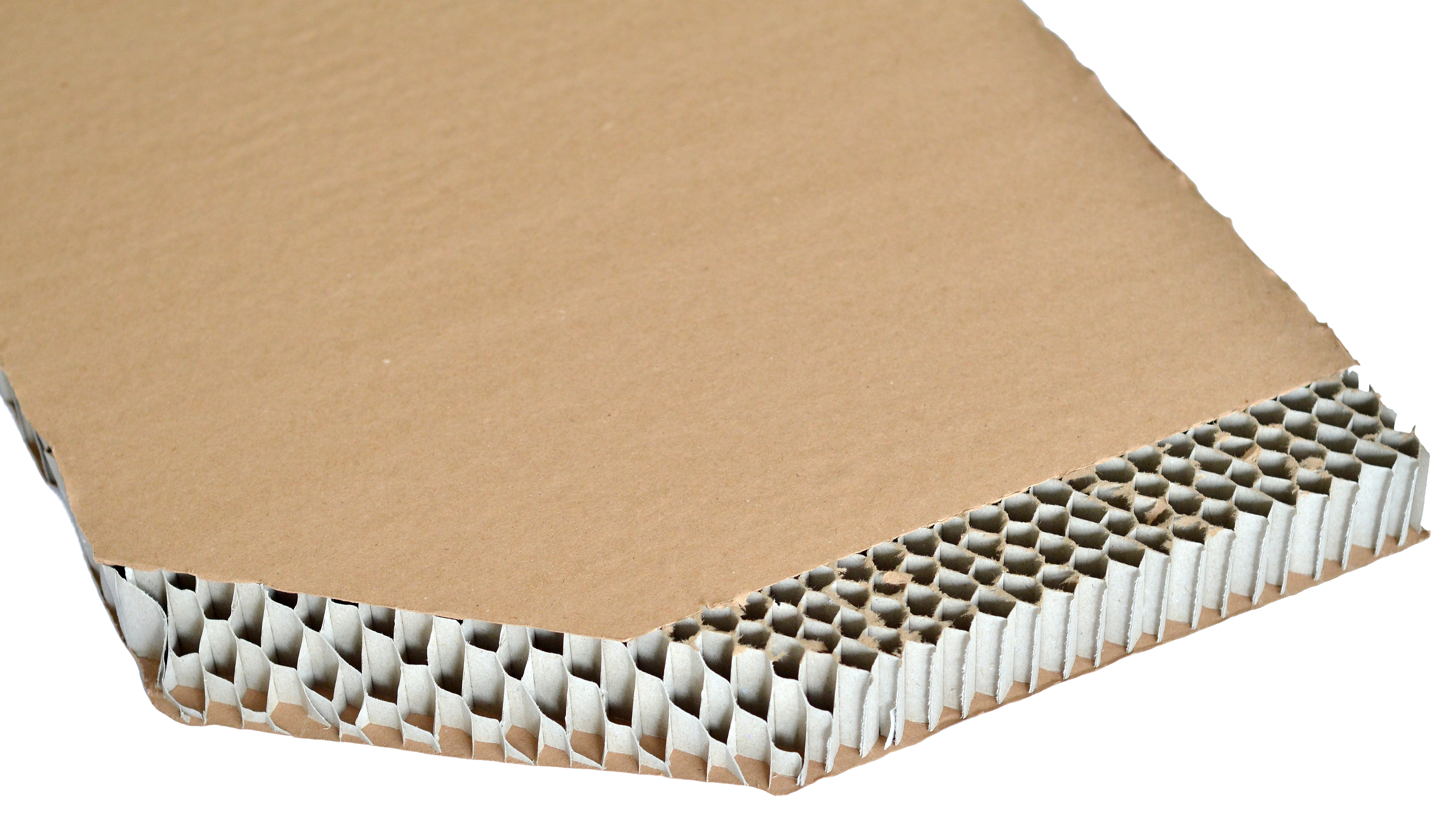 Cardboard Honeycomb used by IKEA to fill empty space in packaging.